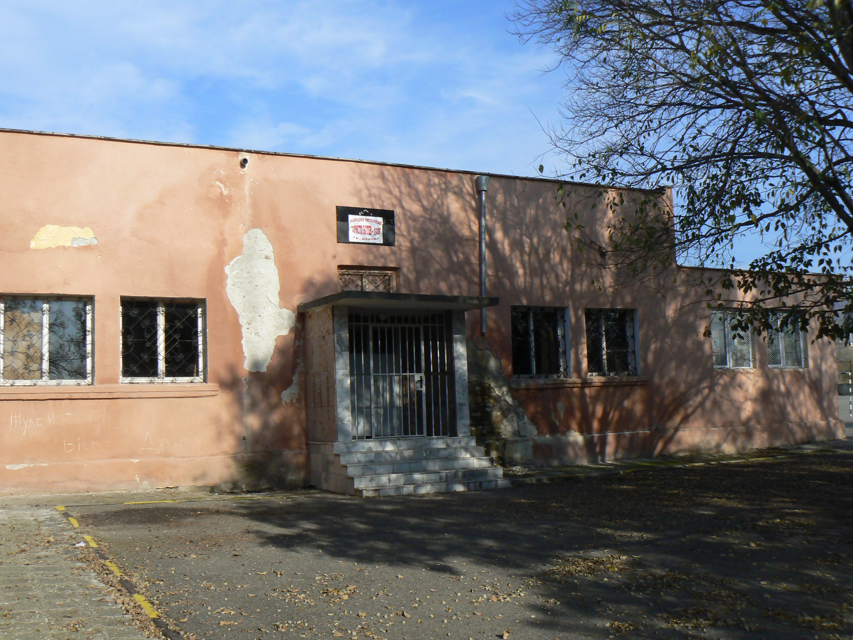 Library "Hristo Botev 1928" in the Burgas estate of Banevo, Bulgaria